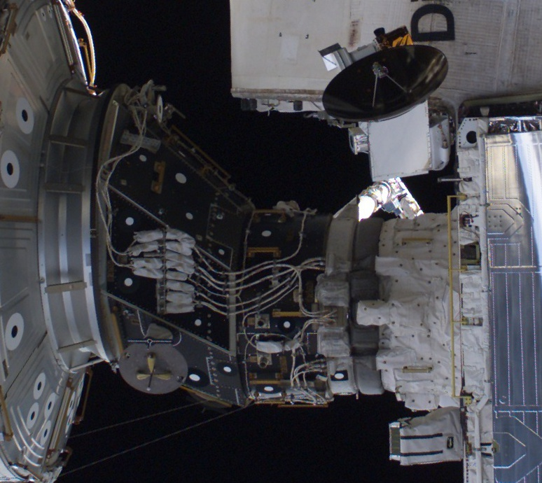 S114-E-6469 (3 August 2005) --- The Space Shuttle Discovery, docked to the Destiny laboratory of International Space Station, is featured in this image photographed by astronaut Stephen K. Robinson (out of frame), STS-114 mission specialist, during a spacewalk. The blackness of space forms the backdrop for the image.